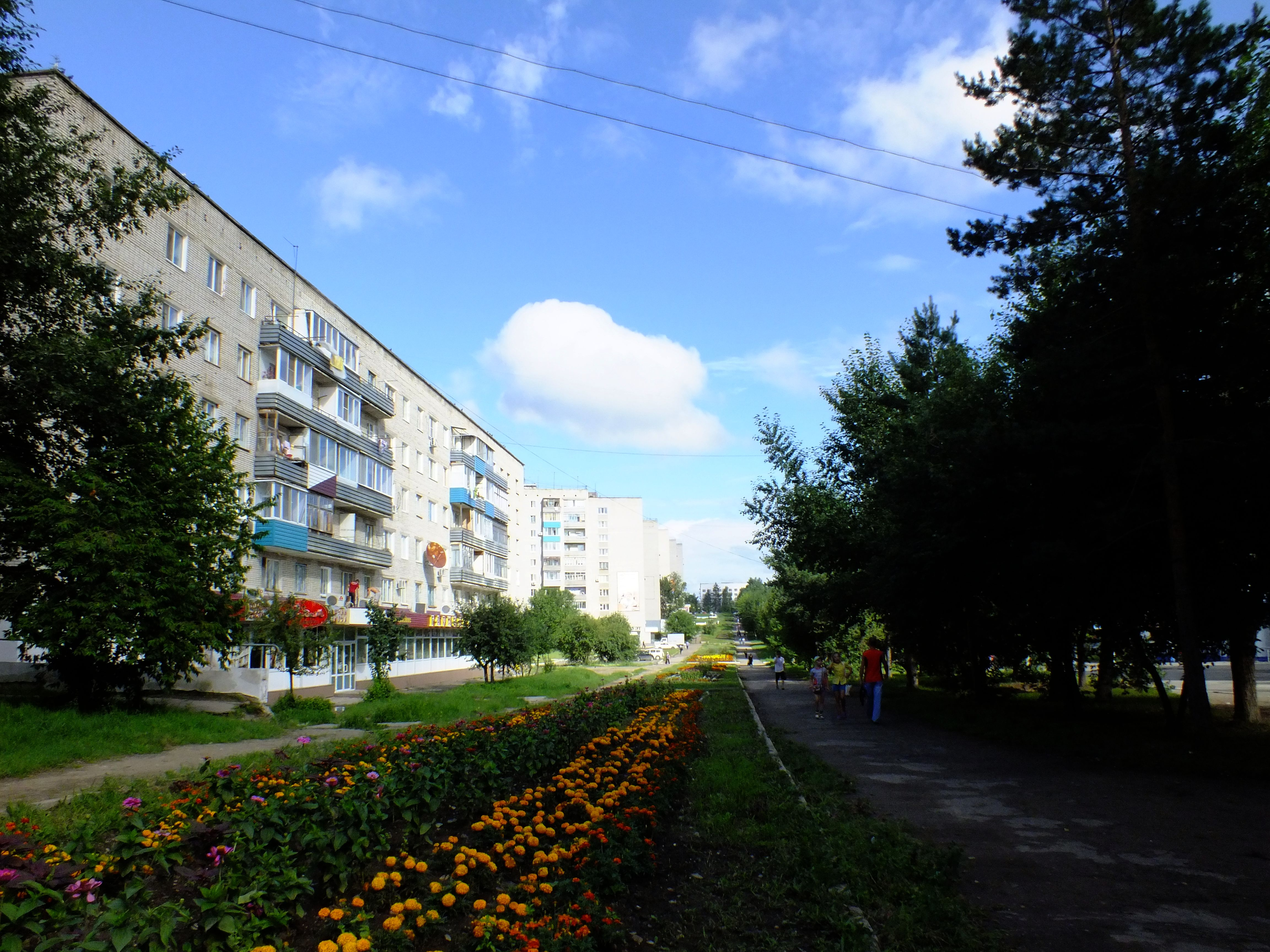 Amursk